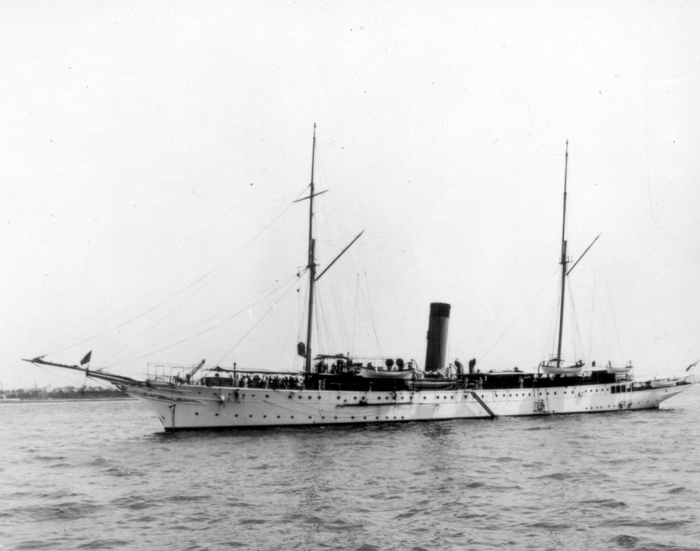 USS MayflowerUSS in 1905